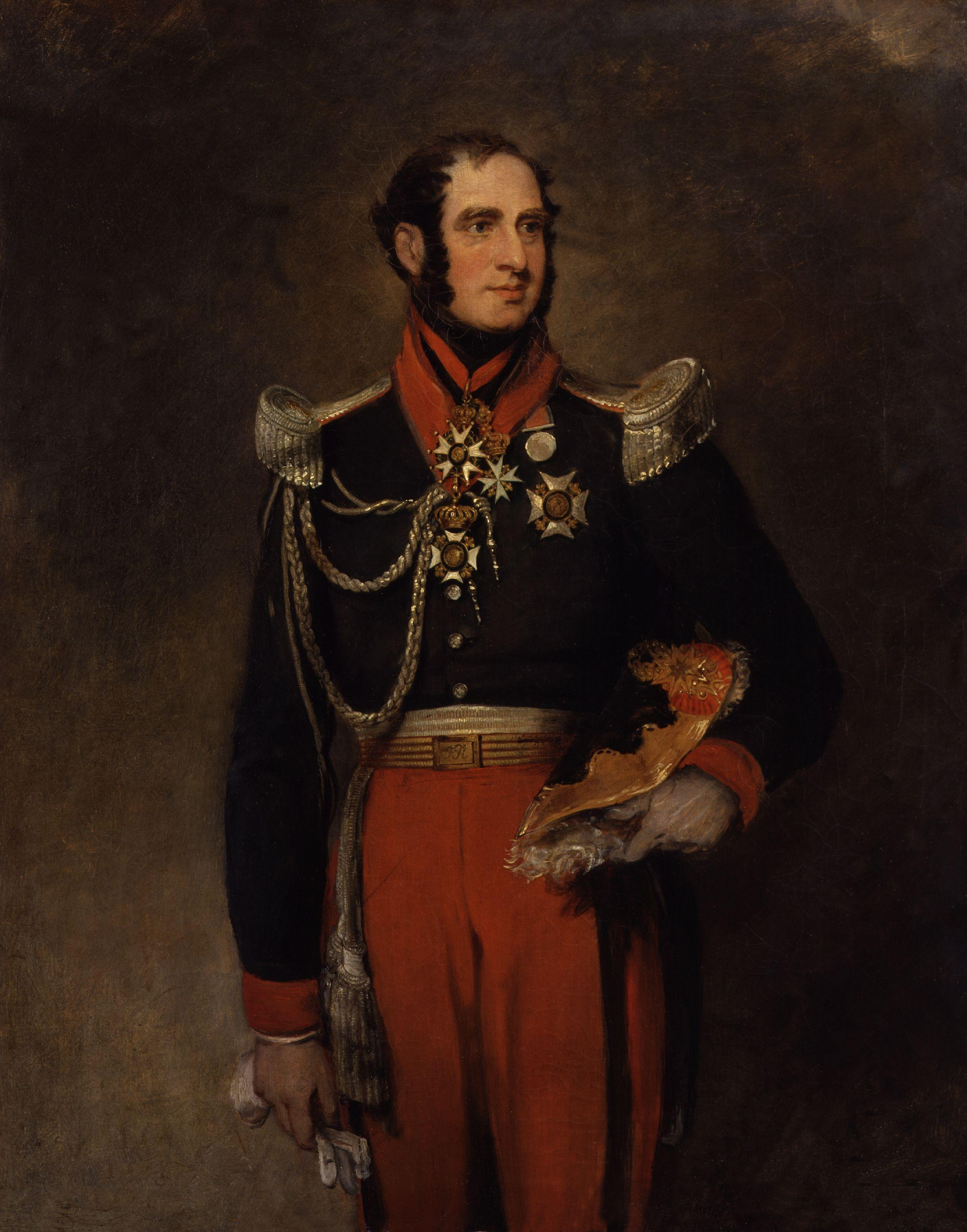 Paolo Ruffo di Bagnaria, Prince of Castelcicala, by William Salter (died 1865). All images in this batch have been confirmed as author died before 1939 according to the official death date listed by the NPG.